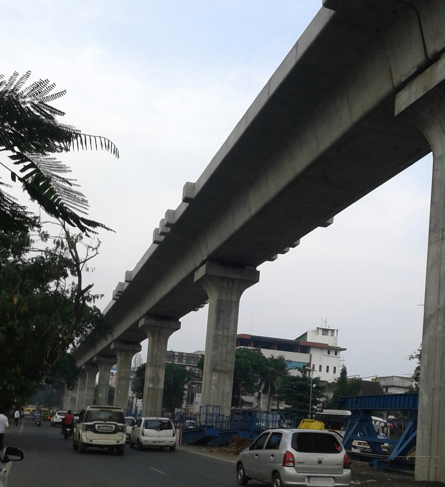 underconstruction viaduct near chattrapati flyover